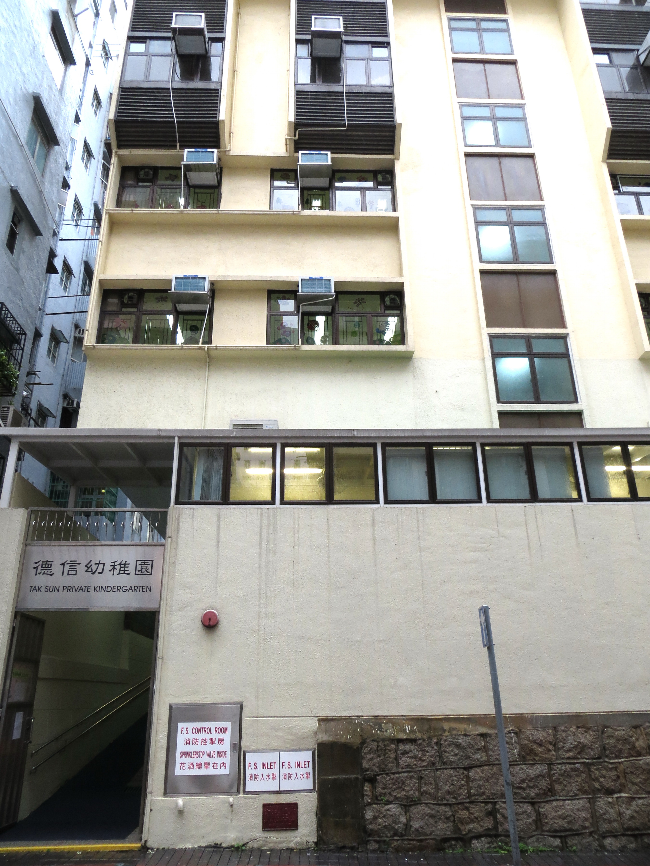 Tak Sun Private Kindergarten, Tsim Sha Tsui, Kowloon, Hong Kong.